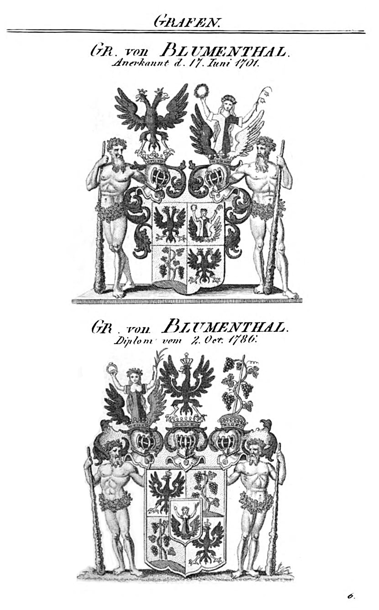 Wappen Blumenthal - Tyroff HA.jpg